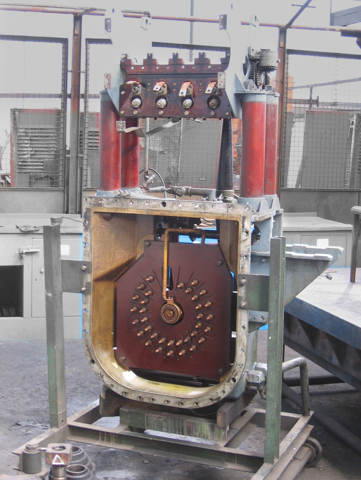 Opened tap changer of the ČD class 242